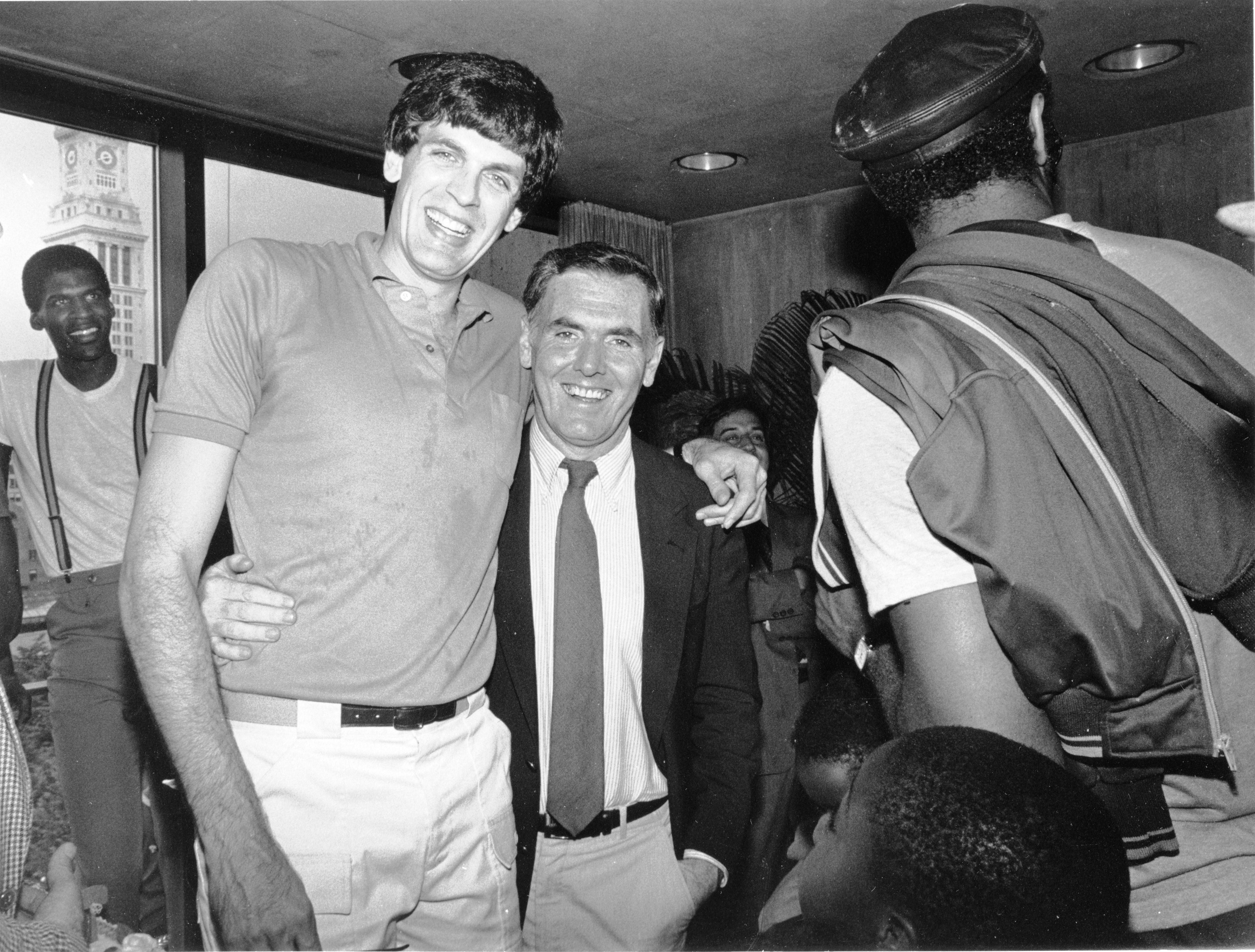 Title: Kevin McHale, Mayor Raymond L. Flynn Creator: Mayor's Office - City Photographer Date: circa 1984-1986 Source: Mayor Raymond L. Flynn records, Collection #0246.001 File name: RF_0141 Rights: Copyright City of Boston Citation: Mayor Raymond L. Flynn records, Collection #0246.001, City of Boston Archives, Boston